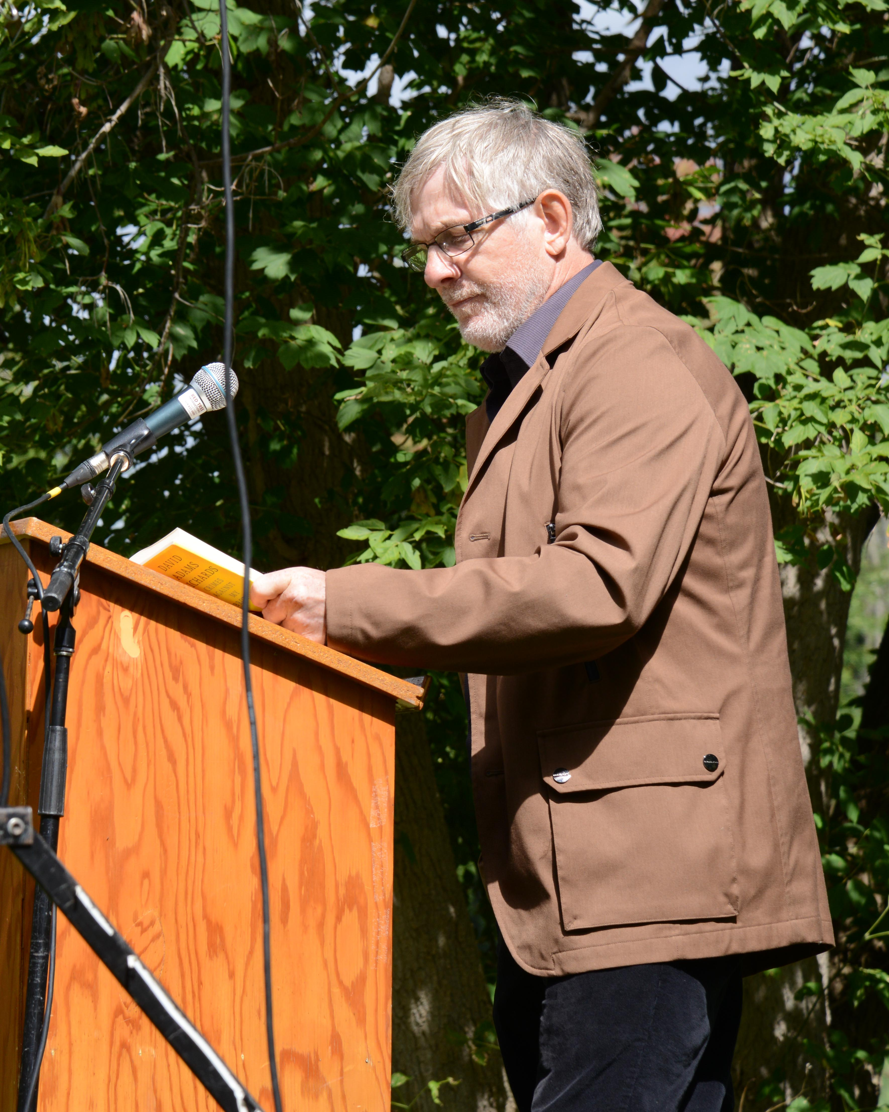 David Adams Richards at the Eden Mills Writers Festival 2014